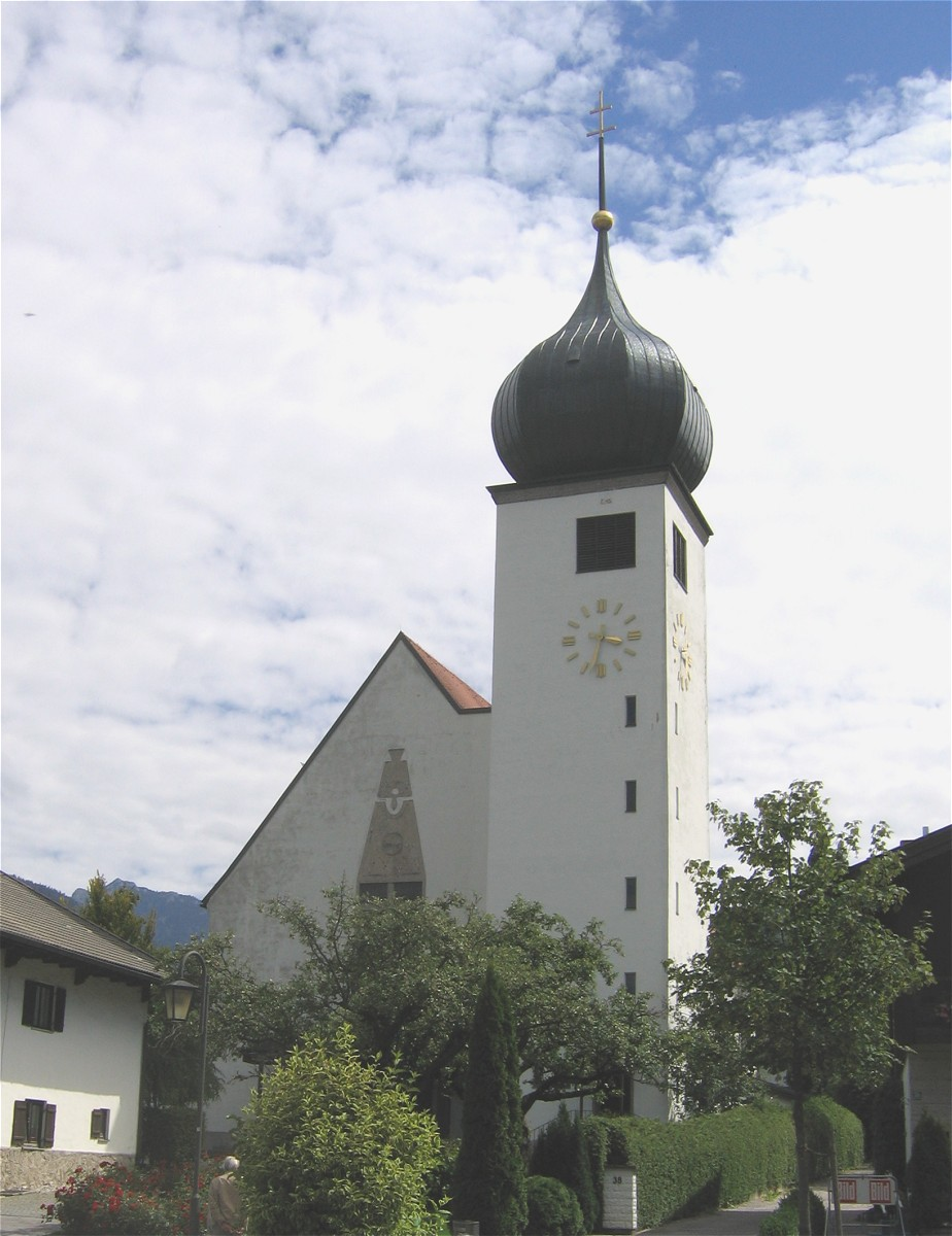 Bad Feilnbach, view of Sacred Heart Parish Church from north-west (Kufsteiner Straße).